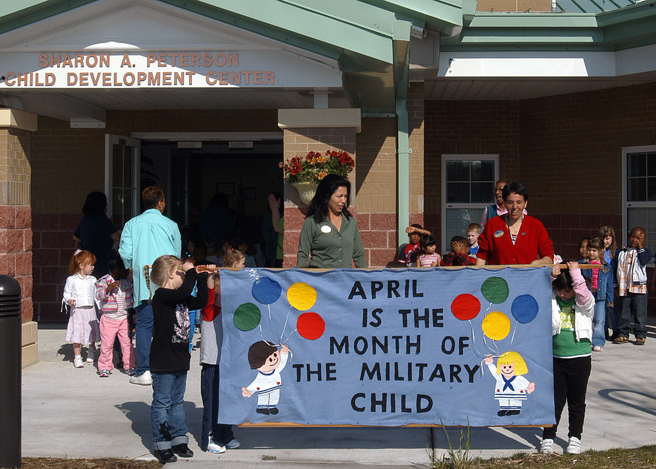 VIRGINIA BEACH, Va. (April 1, 2006) - Lois Davis, training and curriculum supervisor for Naval Air Station (NAS) Oceana Child Development Center (CDC), leads a parade along with education technicians Julia Yarbrough and Alice Fernandez. All of the children and staff marched around the block where their new building is located in observance of Month of the Military Child. To recognize the unique challenges that military children experience, Navy Fleet and Family Readiness programs worldwide will celebrate the Month of the Military Child in April with Special events and celebrations. U.S. Navy photo by Mass Communication Specialist 3rd Class Jason R. Zalasky (RELEASED)